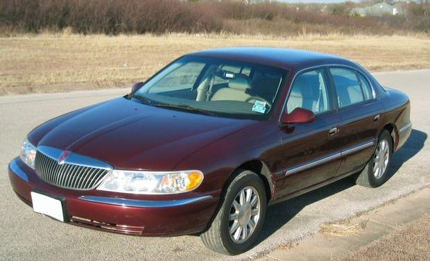 2000 Lincoln Continental Photographed in Lancaster, PA.